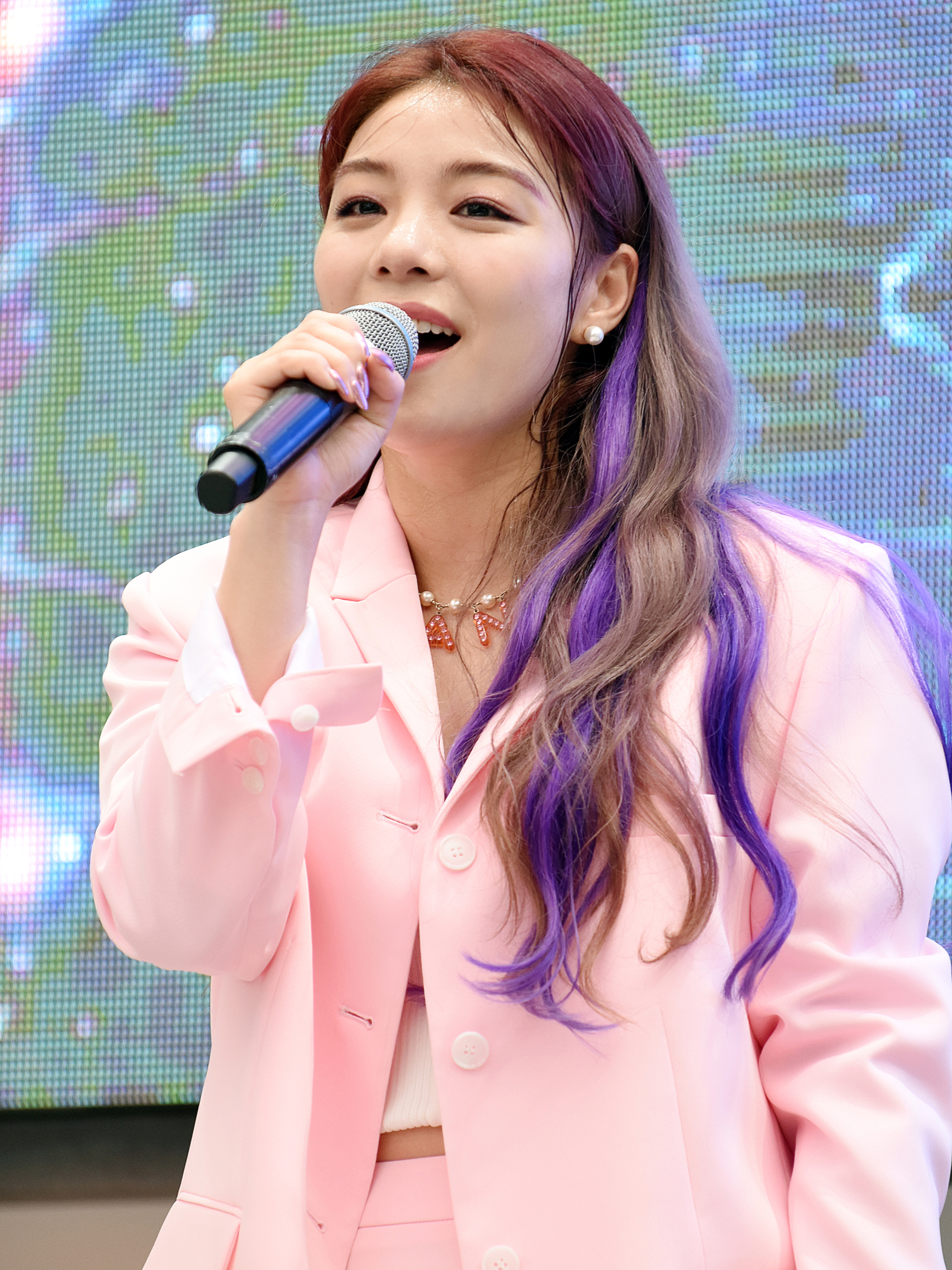 Ailee busking in Hongdae on July 19, 2019.